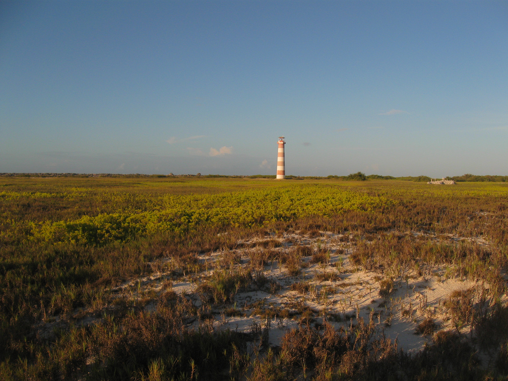 La Tortuga Island, lighthouse.